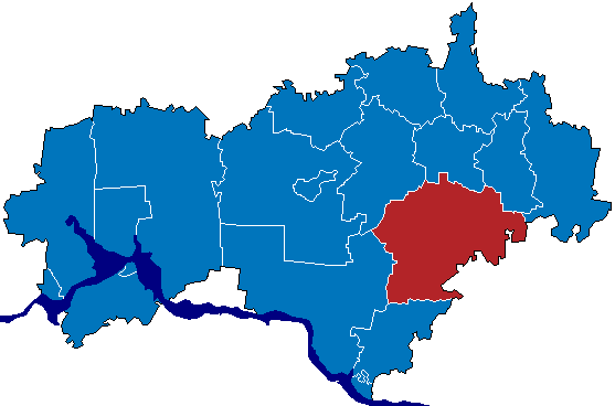 Site of the Morkinsky area of Mari El on a republic map